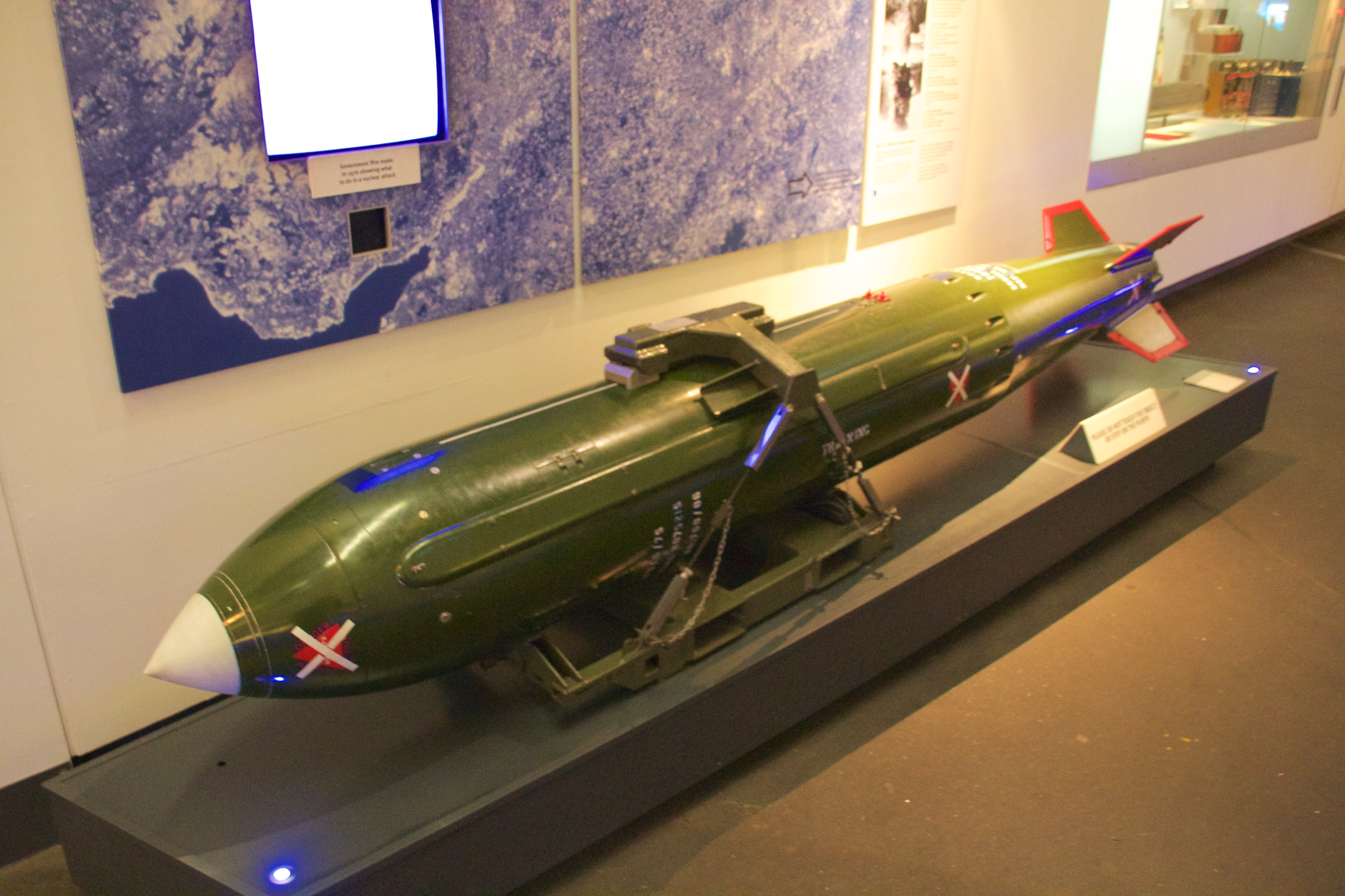 WE 177 British nuclear bomb (training example). At the Imperial War Museum North.